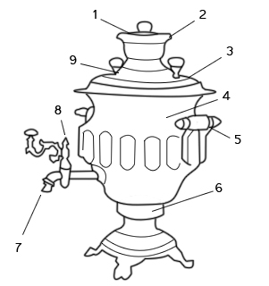 Russian samovar schema